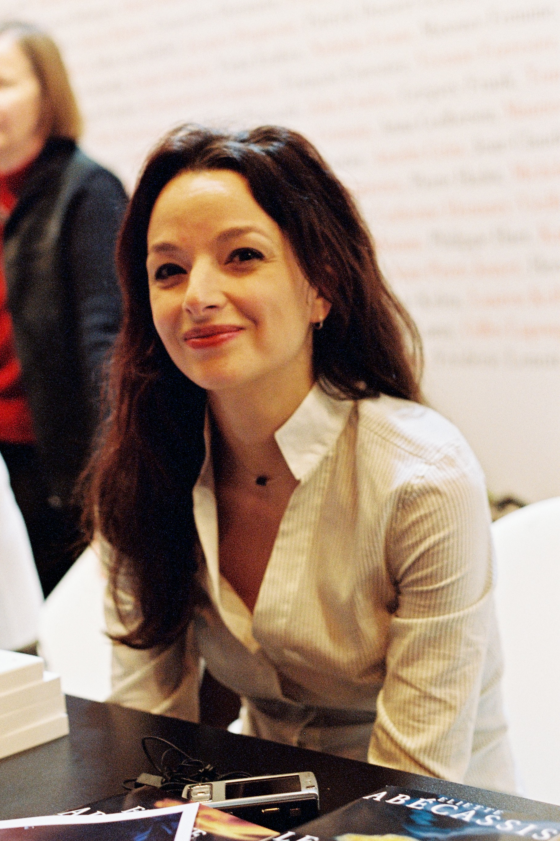 French author Eliette Abécassis at Salon du livre de Paris 2009.